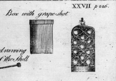 Close up of grapeshot from File:A treatise on artillery sketch norman.jpg, which is PD-OLD.